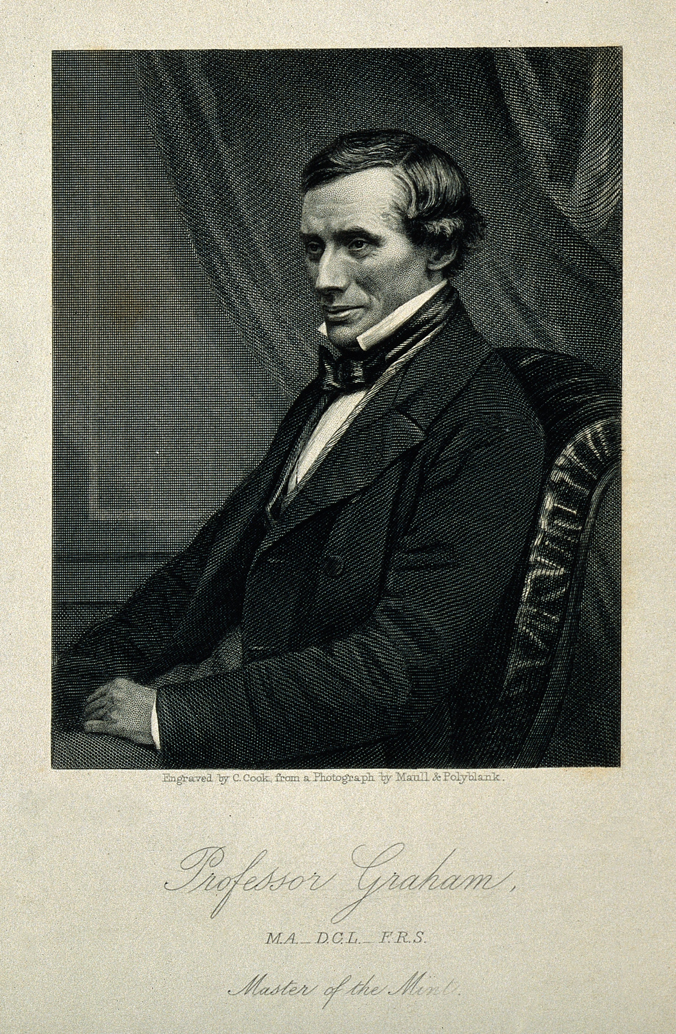 Thomas Graham. Line engraving by C. Cook after a photograph by Maull & Polyblank. Iconographic Collections Keywords: portrait prints; engravings; Thomas Graham